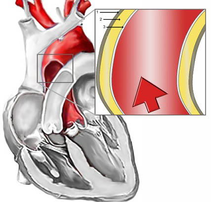 aortic dissection - Aortendissektion (Scheme)